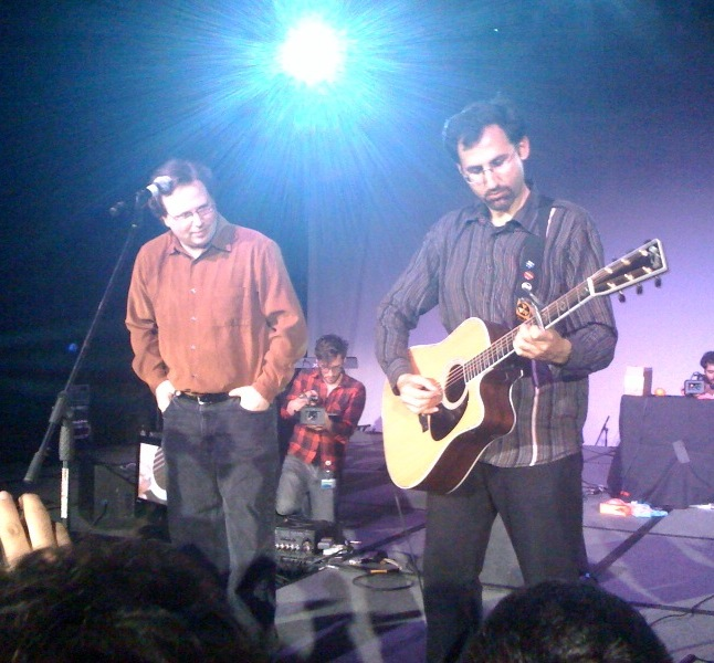 Paul and Storm performing a song on the thrust stage at PAX 09 in Seattle, WA. Picture taken on 05Sep09 with an iPhone 3G.